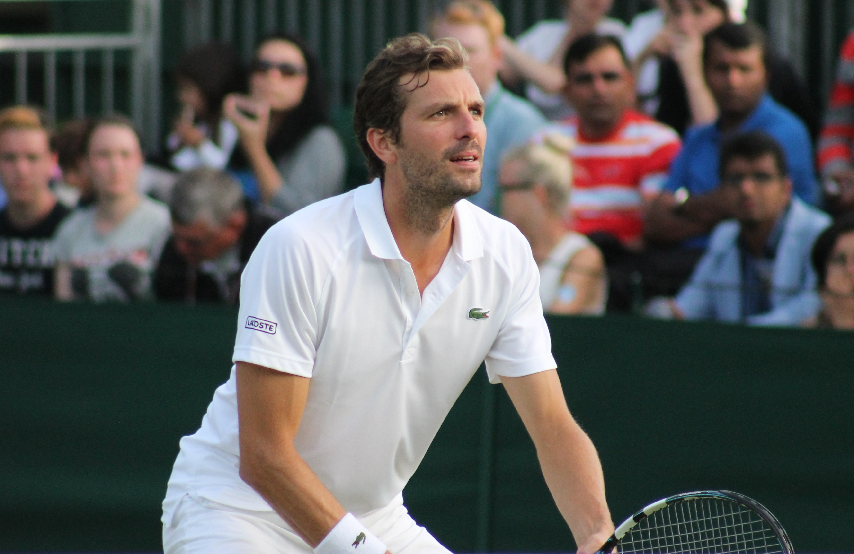 Julien Benneteau plays in the second round of the Mens Doubles at Wimbledon on 29 June 2013; partner was Nenad Zimonjic (SRB); opponents were Grigor Dimitrov (BUL) & Frederik Nielsen (DEN)